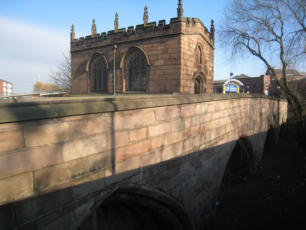 Chantry Chapel of Our Lady and Rotherham Bridge